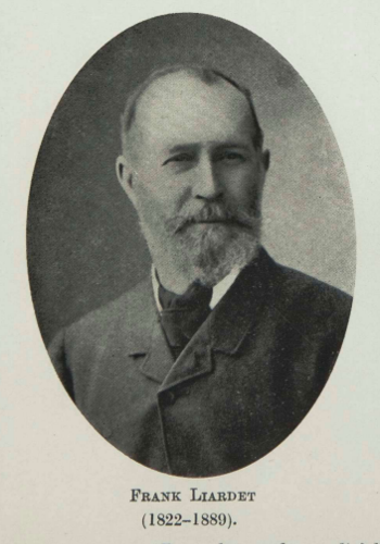 Portrait of Frank Liardet.